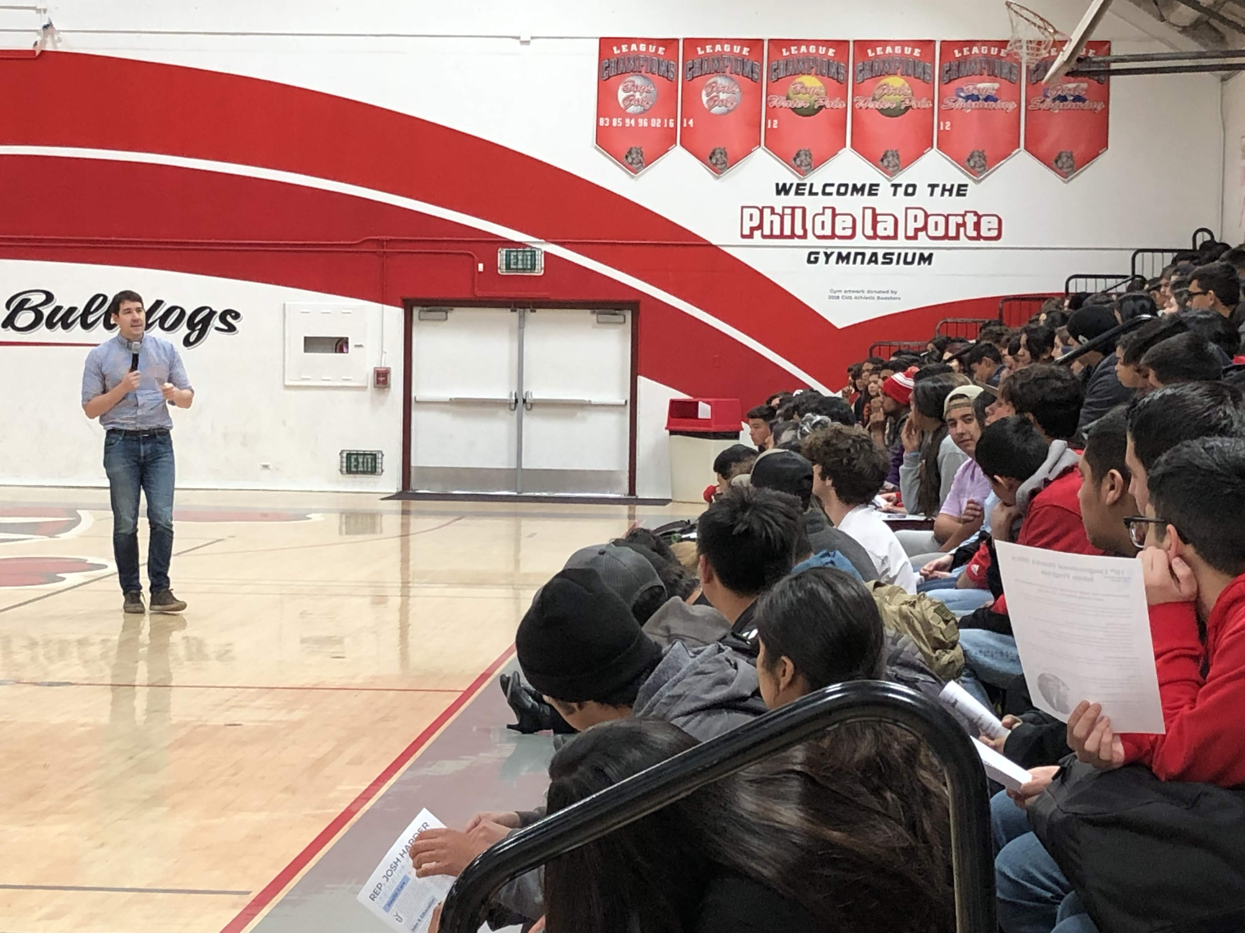 So great to meet with students from Ceres High – go Bulldogs!